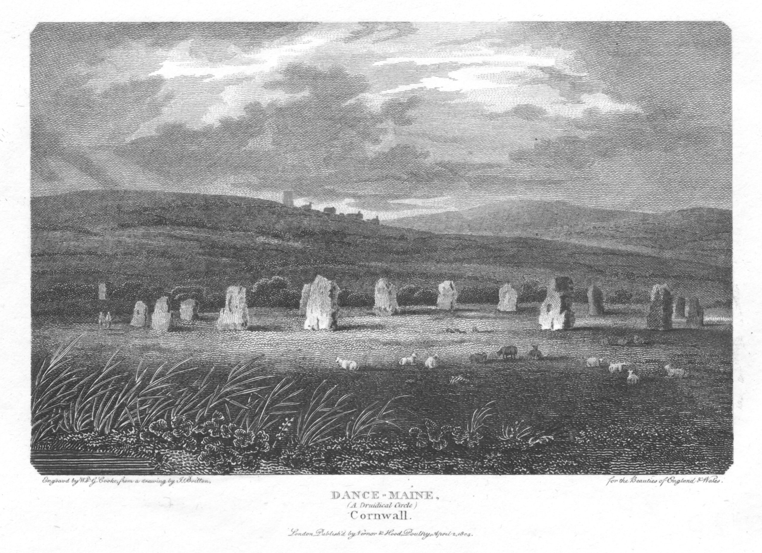 Engraving - Dance-Maine or the Merry Maidens - Lamorna - Cornwall - UK